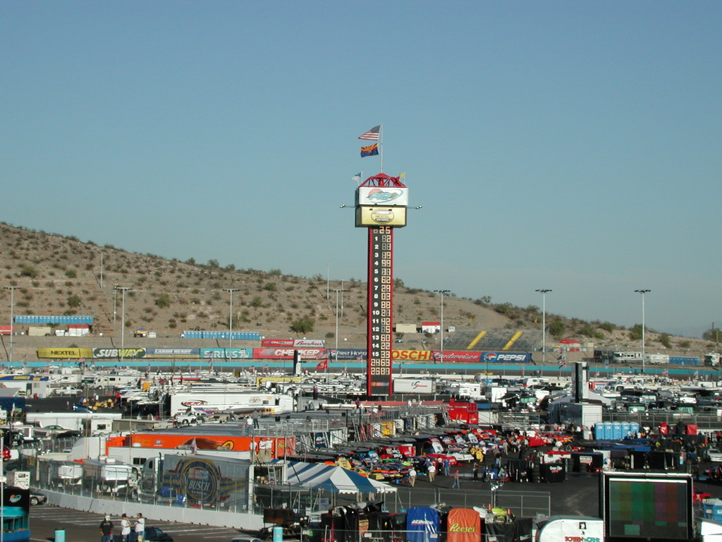 PIR infield, fans on the hillside